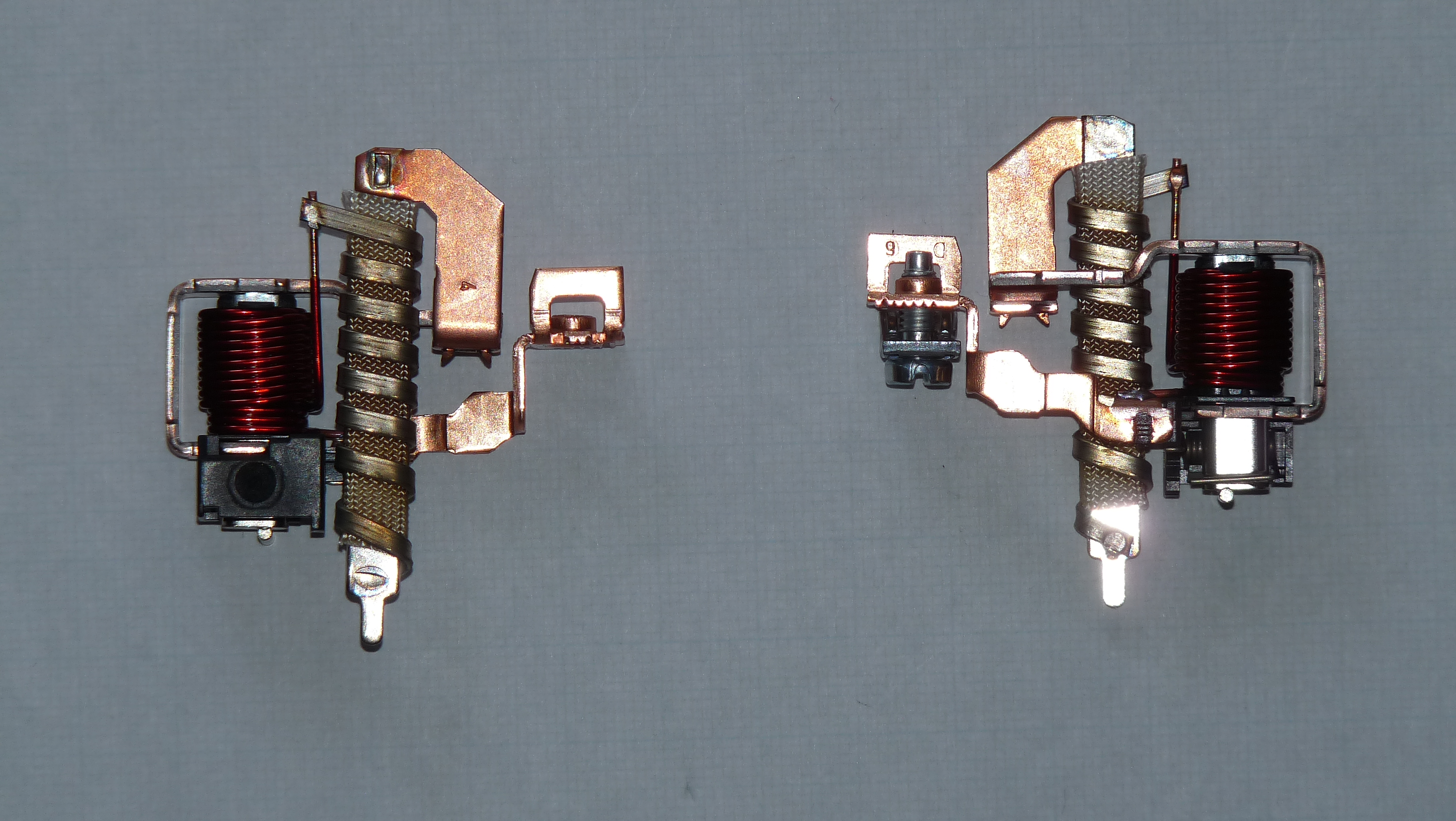 Thermo-Magnetic interrupter